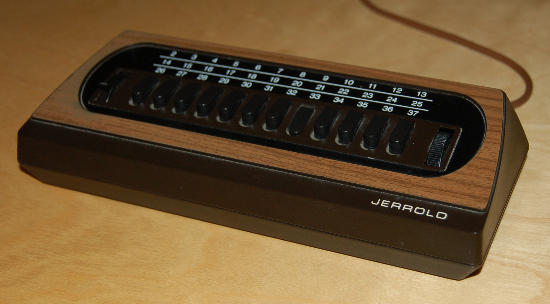 Made by myself. It's an old remote bought in the 70s.